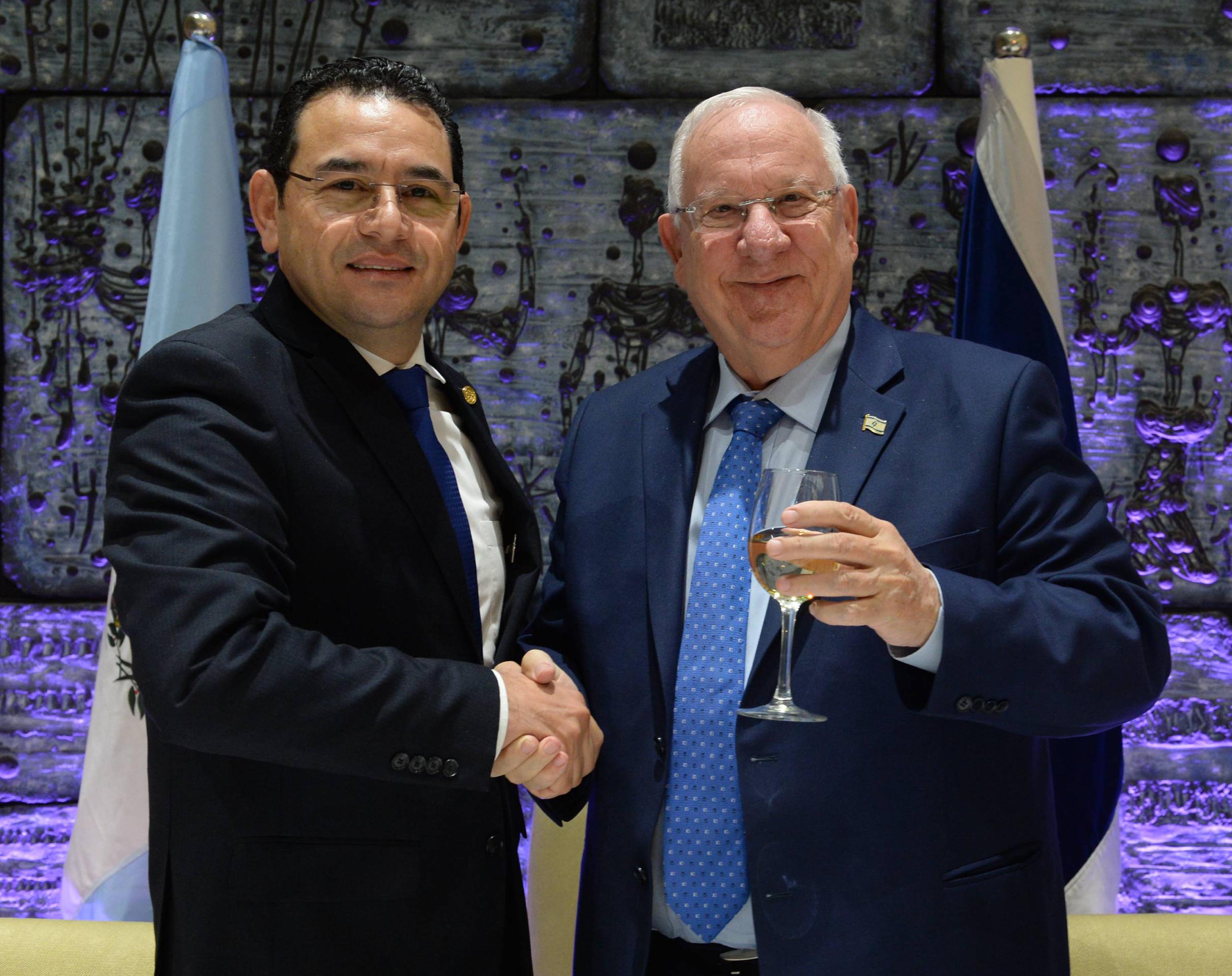 President Reuven Rivlin and his wife held an official dinner in honor of the President of Guatemala and his wife, who held a state visit to Israel. Monday, November 28, 2016. Photo Credit: Mark Neyman / GPO.